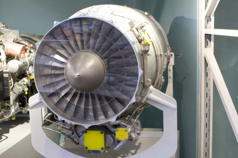 A Pratt & Whitney Canada JT15D turbofan engine at the Canada Aviation and Space Museum